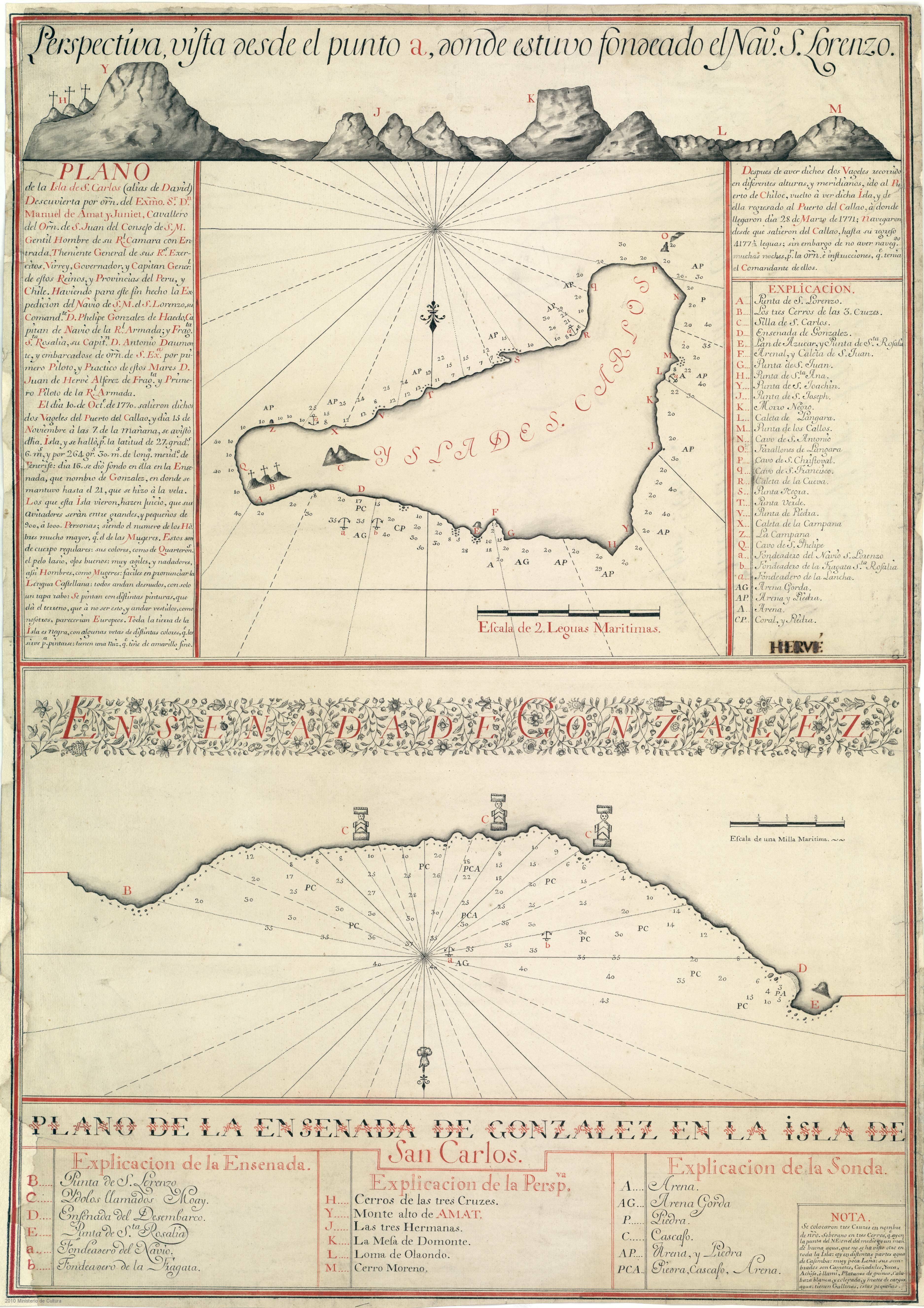 North down 1772 map of Easter Island (Isla de San Carlos) drawn by the 1772 Spanish expedition commanded by Felipe González de Haedo. Original in Madrid Naval Museum